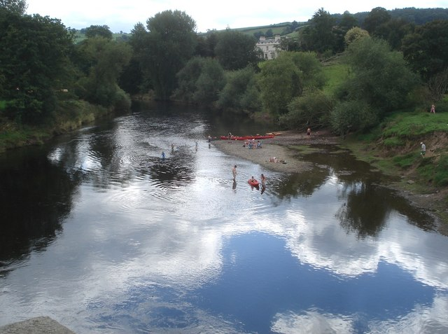 River Wye and Bredwardine vicarage Looking downstream from Bredwardine bridge. Between the trees is Bredwardine vicarage, built in 1805 and sitting on the same terrace above the Wye as the parish church. These terraces may be the site of a vineyard which was recorded as adjacent to the castle in the 13th century. Reverend Francis Kilvert lived in the vicarage from 1877-9 and his diary makes many references to the site.